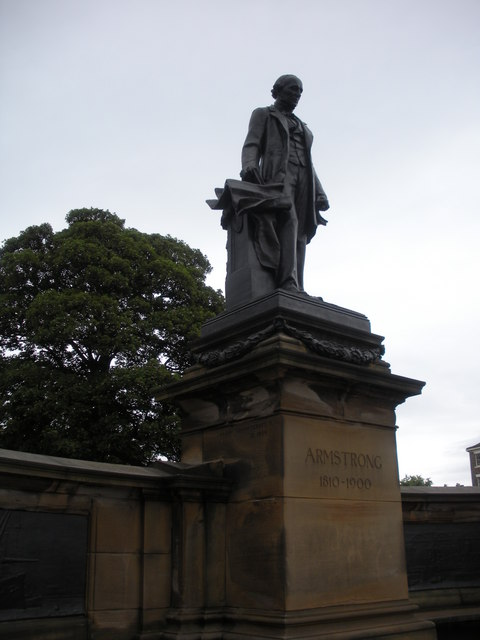 Statue of Lord Armstrong, outside Hancock museum